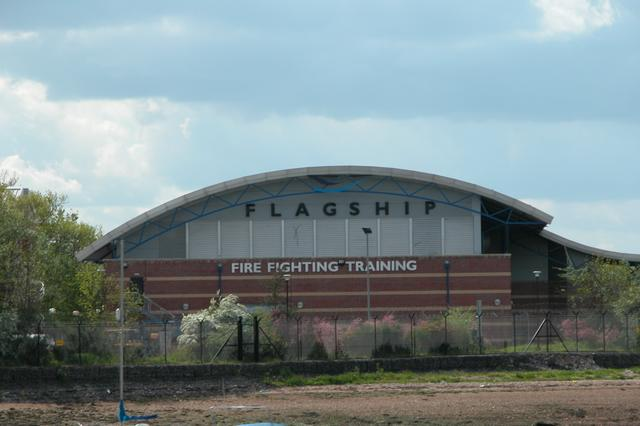 Royal Navy Firefighting school on Whale Island.